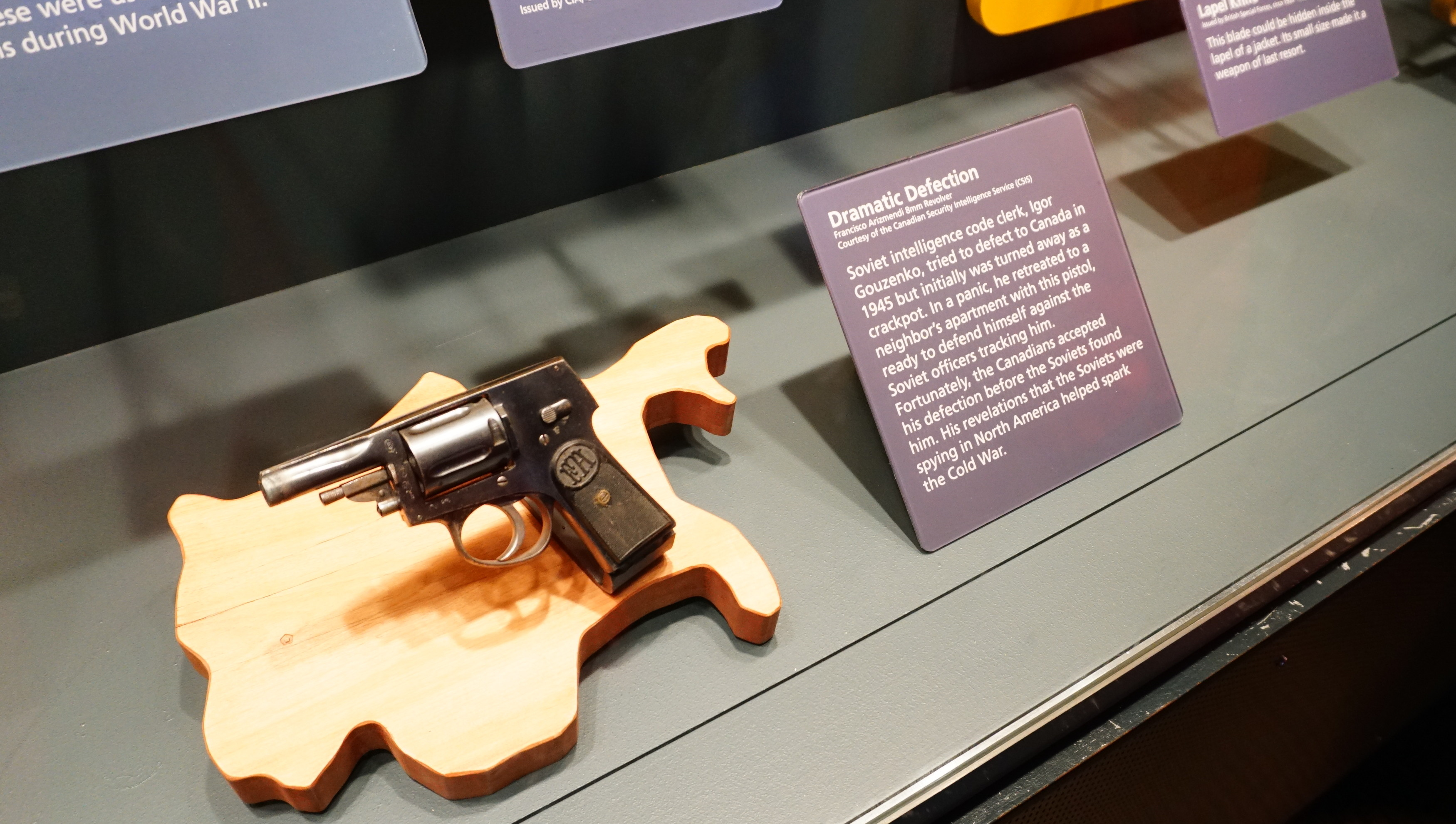 Soviet intelligence code clerk, Igor Gouzenko, tried to defect to Canada in 1945 but initially was turned away as a crackpot. In a panic, he retreated to a neighbor's apartment with this pistol, ready to defend himself against the Soviet officers tracking him.